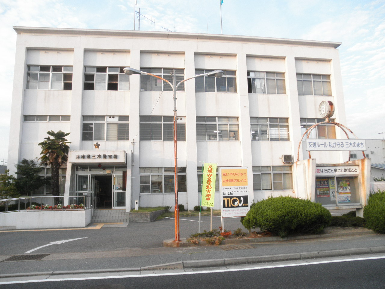 Miki police station